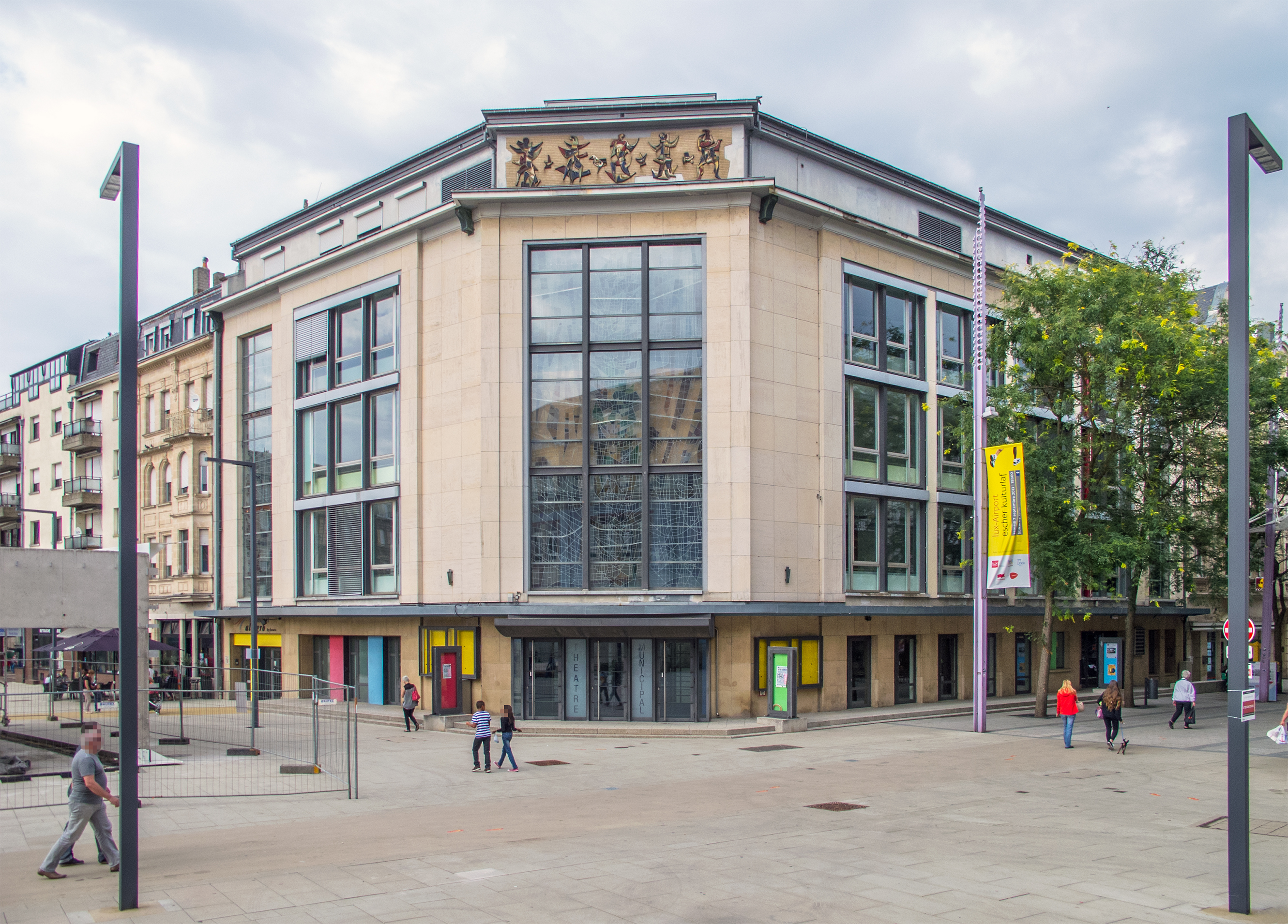 Theater of Esch-sur-Alzette